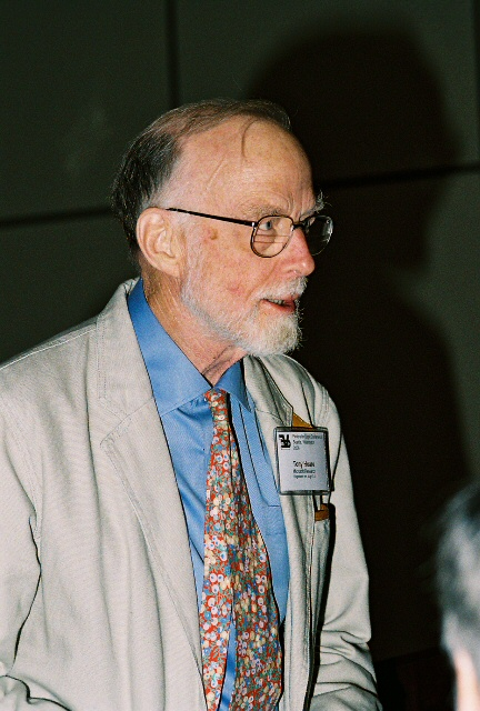 Tony speaks to us on :The Ideal of Verified Software""